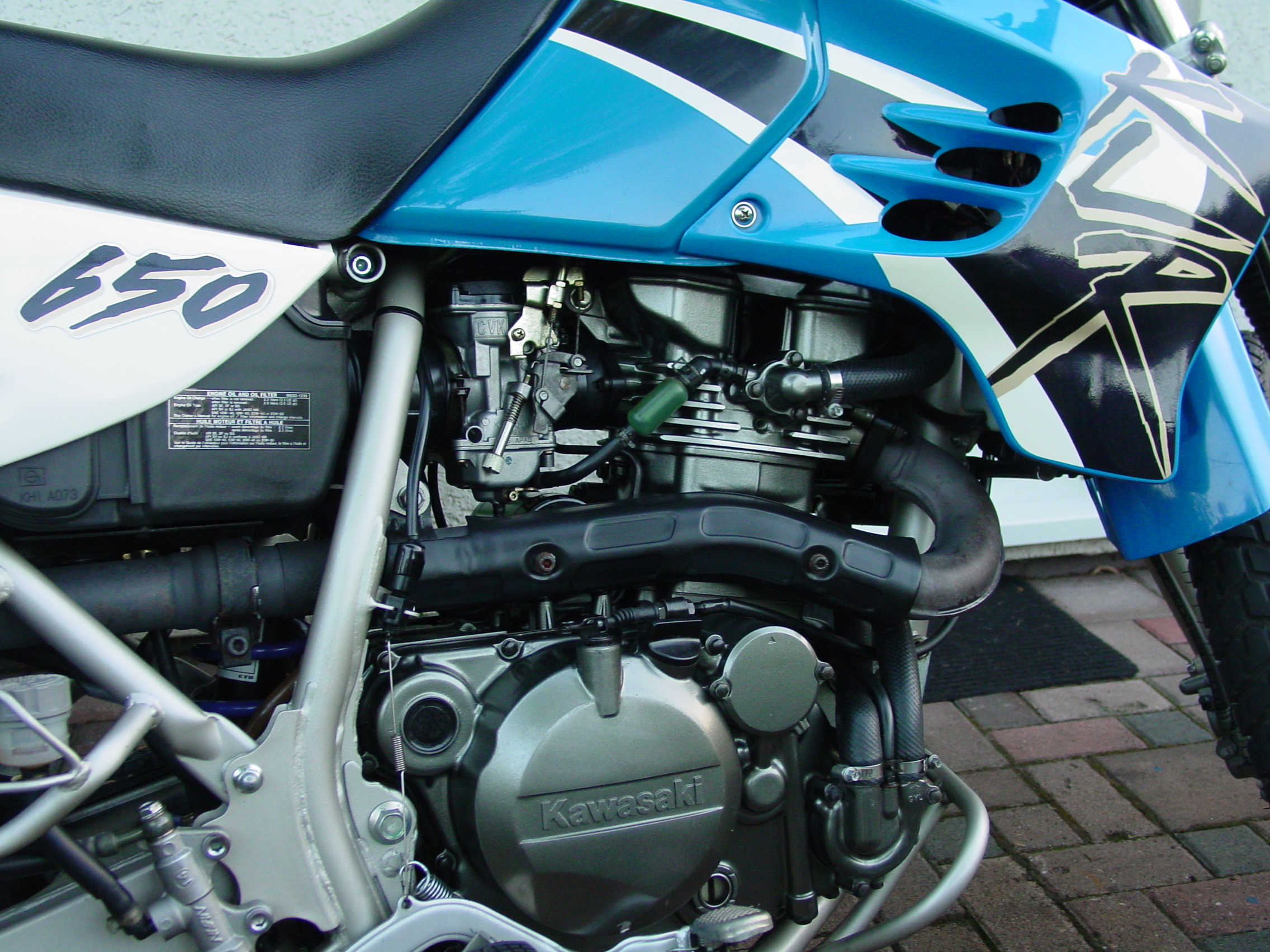 Detail picture of the motor